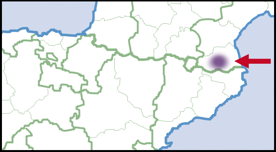 Montserratina becasis (Rambur, 1868). Distribution in Europe, scientific state of knowledge of 2012. Source description in English. Light colour indicated rare occurrences or regions where the species could eventually be expected to occur. Dark colour indicated relatively reliable occurrences, as well as regions where the species was expected to occur, and where the species was not known to be extremely rare. Dark colour indications were not necessarily based on published records. Species summary in AnimalBase